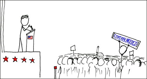 xkcd webcomic 285 entitled "Wikipedian Protester". Note that this image was originally meant to be displayed with the tooltip "SEMI-PROTECT THE CONSTITUTION".